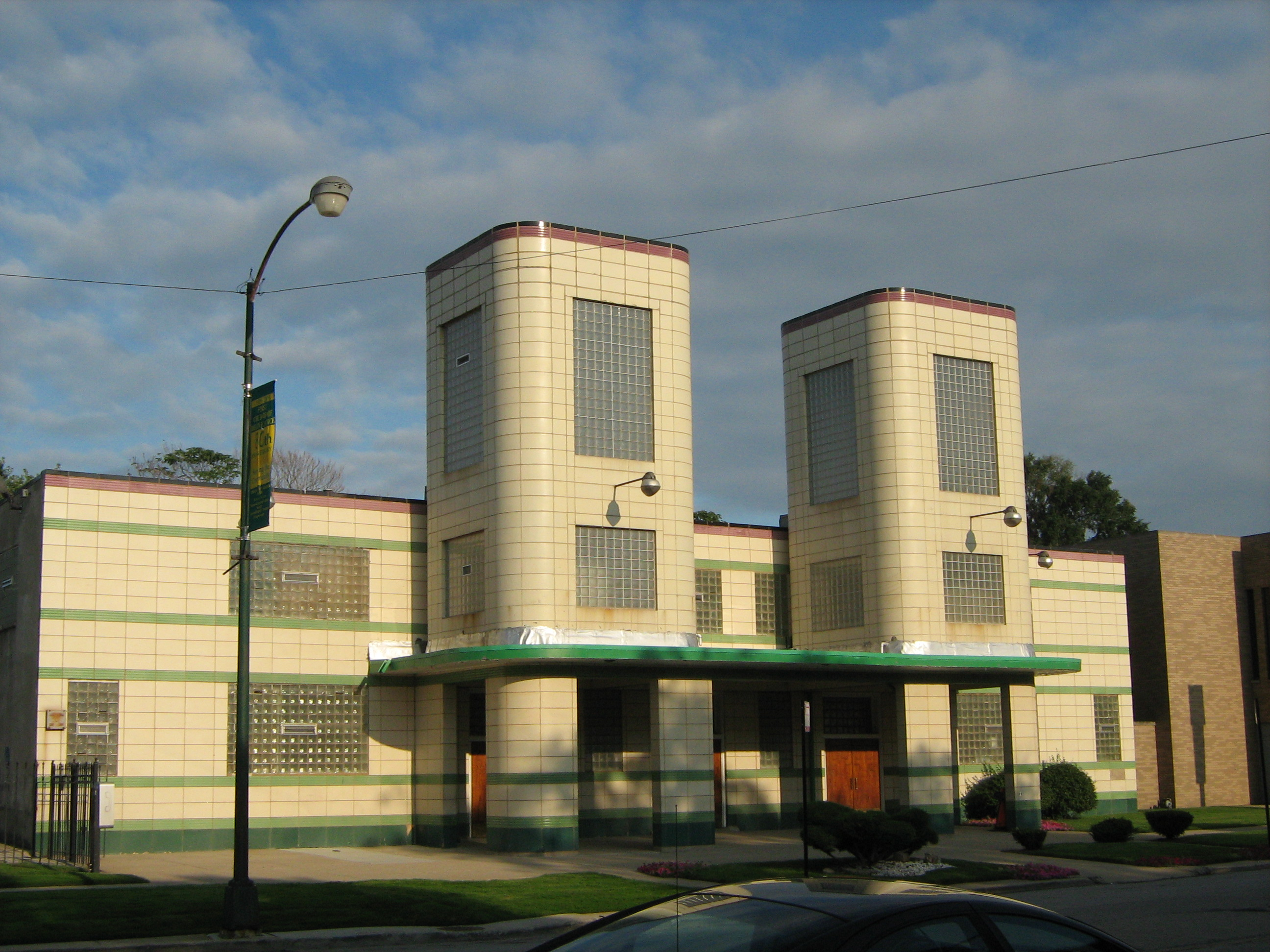 4301 S Wabash Ave Chicago, IL 60653 (773) 373-7700